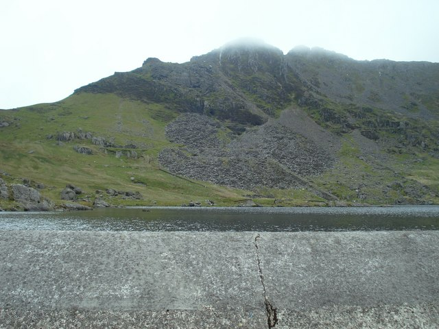 A crack in the Dam An eye level view across Llyn Stwlan towards Craigysgafn with the remains of one of the many mines in this area.